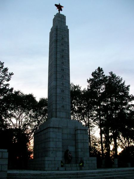 In memory of the events in august 1945